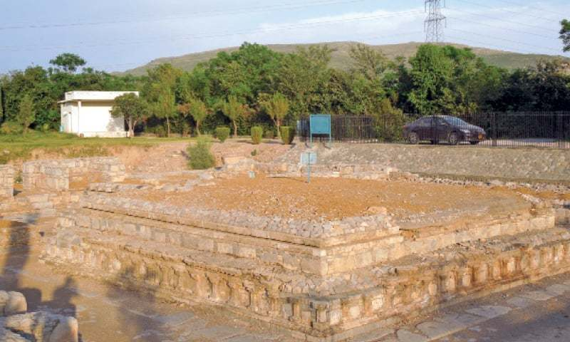 Rehman Dheri This is a photo of a monument in Pakistan identified as the KPK-8